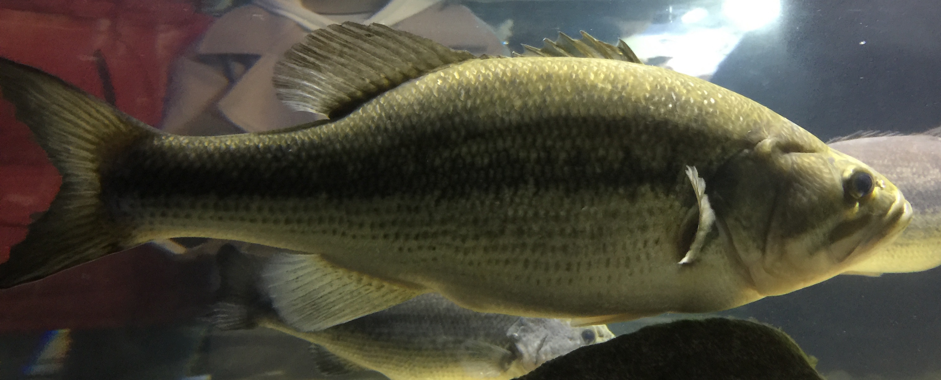 Largemouth Bass (Micropterus salmoides) photographed at the Coex Aquarium in Seoul, Korea.